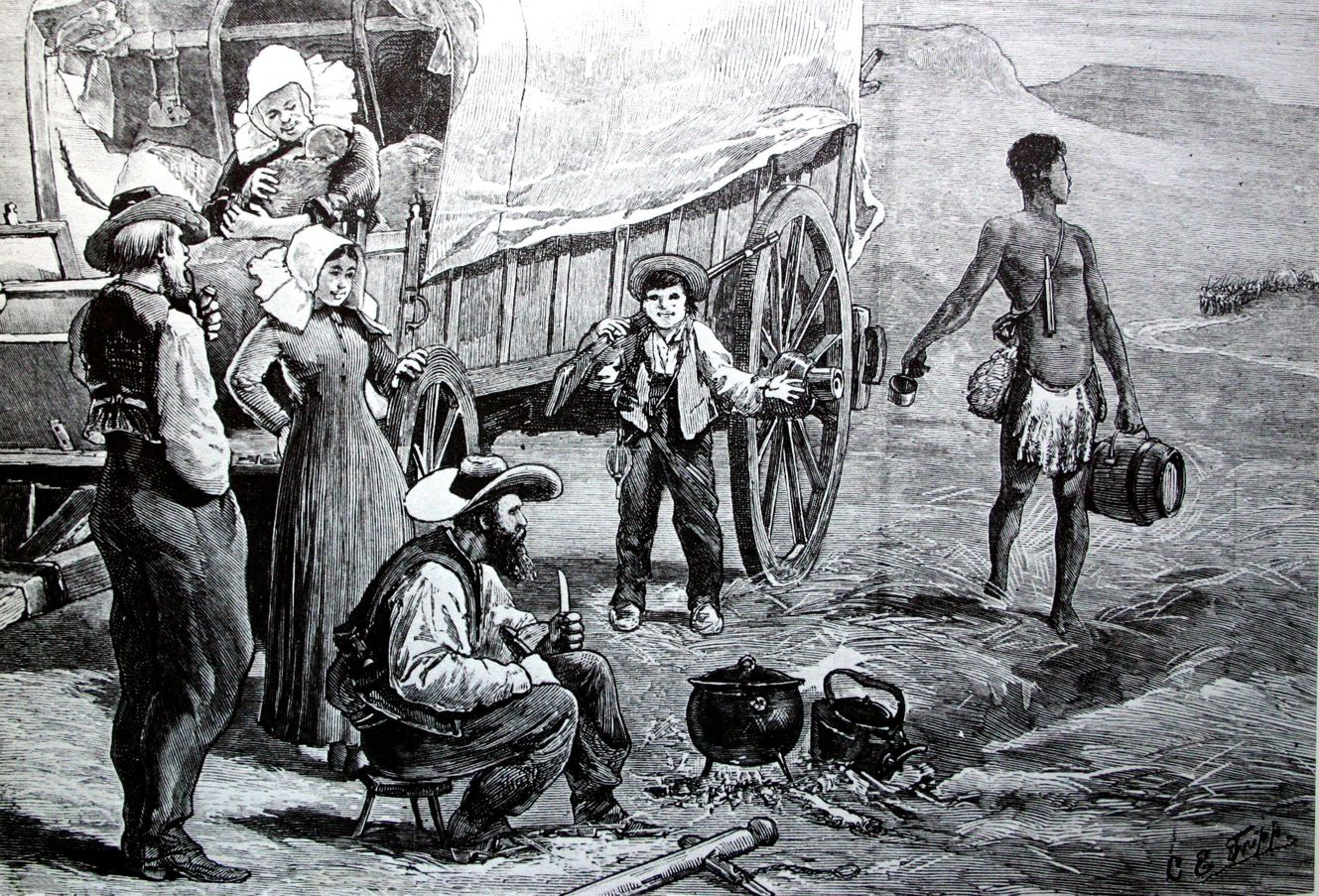 Engraving of Voortrekkers' outspan